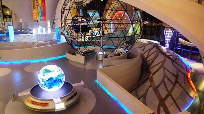 Kahramaa Awareness Park - Interior Space